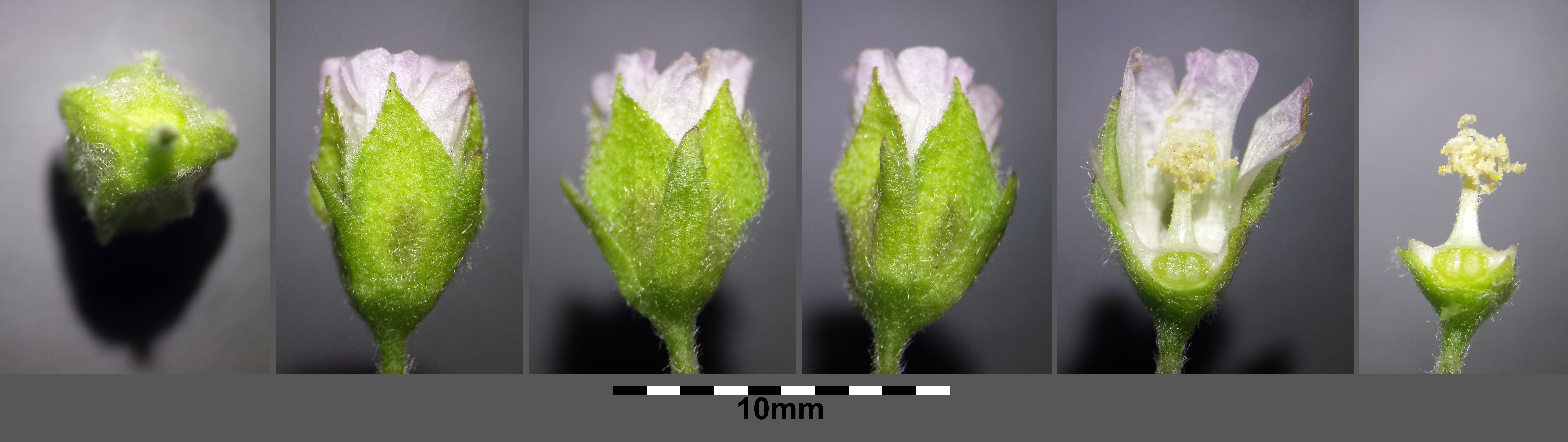 Flower, opened at right side Taxonym: Malva verticillata ss Fischer et al. EfÖLS 2008 ISBN 978-3-85474-187-9 Location: Steinberg near Niederhollabrunn, district Korneuburg, Lower Austria - ca. 375 m a.s.l. Habitat: field of pumpkins